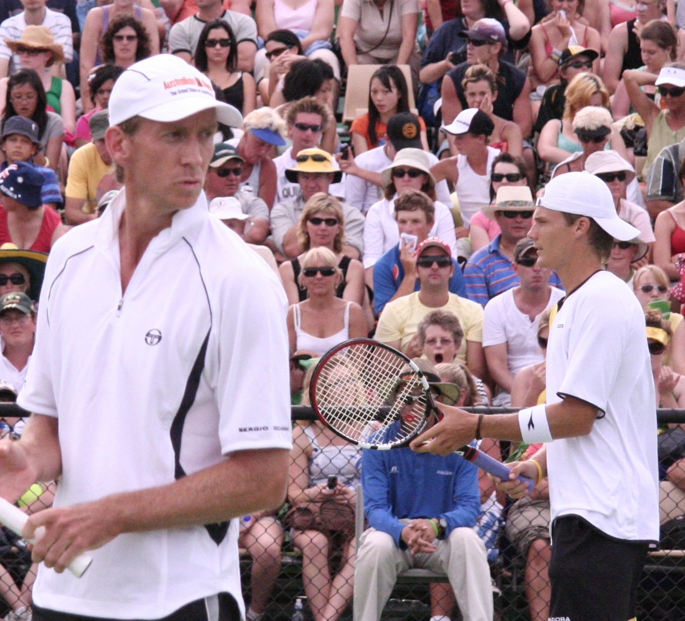 Wayne Arthurs & Peter Luczak at the 2007 Australian Open, during their first-round mens doubles match.